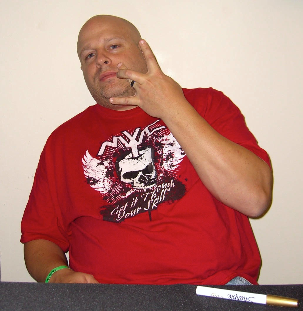 Professional wrestler Mikey Whipwreck on October 2, 2010 at the Big Apple Convention in Manhattan. This photo was created by Luigi Novi. It is not in the public domain, and use of this file outside of the licensing terms is a copyright violation.